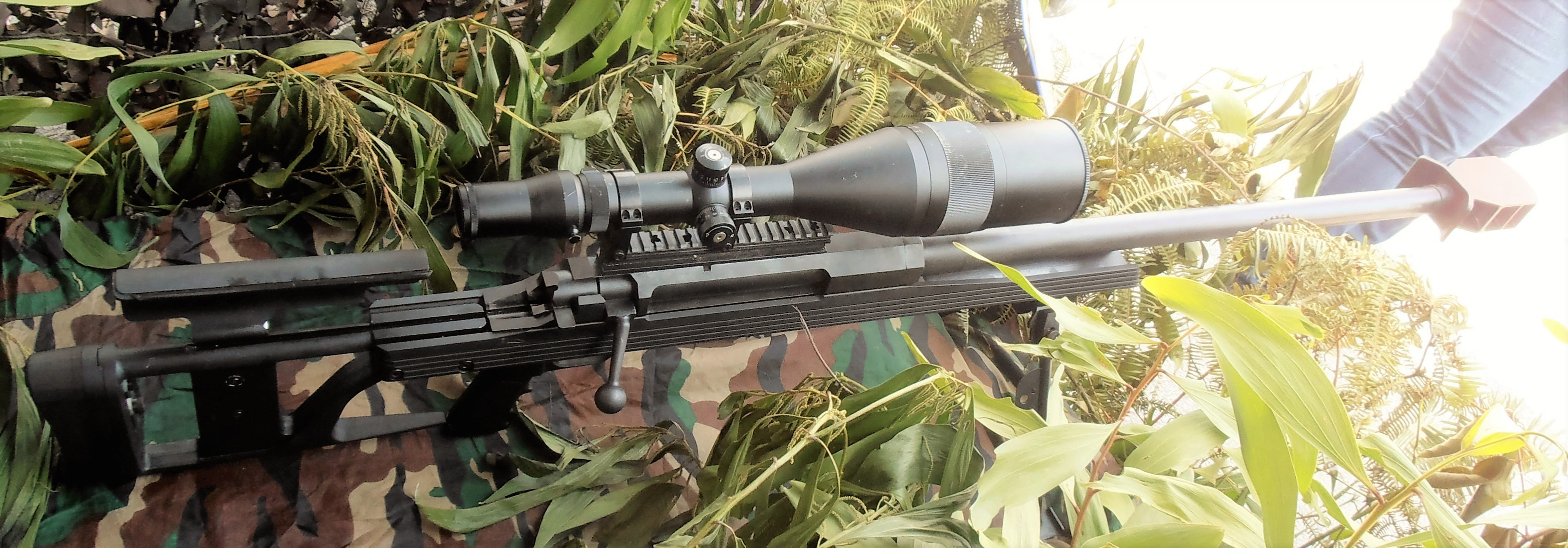 LUMUT (May 01, 2016) An American Armalite AR-50 anti-material sniper rifle used by PASKAL on display at an navy armory exhibition booth during 82nd Anniversaries of Royal Malaysian Navy, Lumut, Perak, Malaysia.